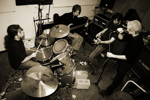 In-kata is a musical group from Antwerpen.